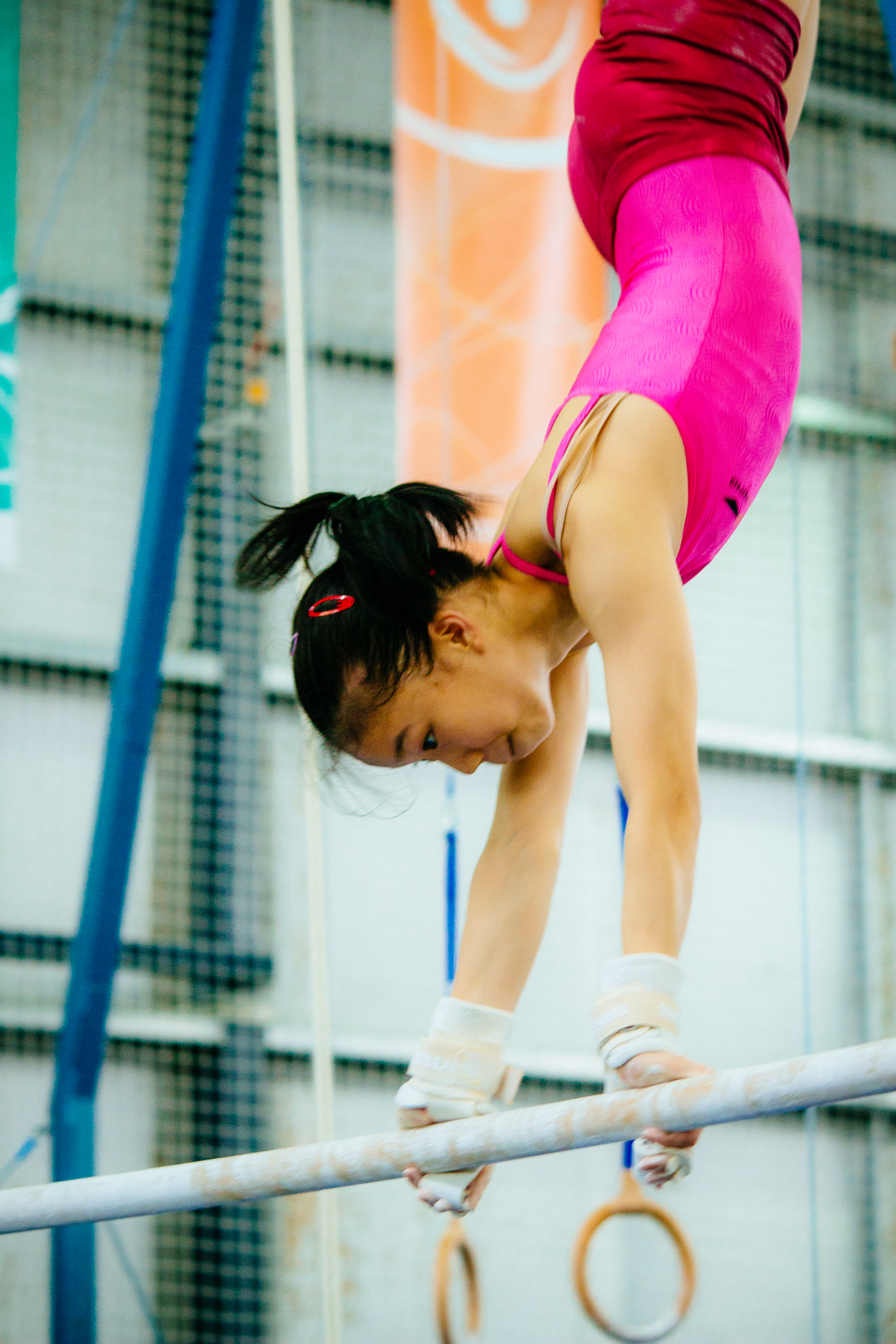 Photo taken at the 2014 Lake Macquarie International Children’s Games in December 2014. The ICG is the largest multi‐sport youth games in the world and a member of the International Olympic Committee. Approximately 1500 athletes between 12 and 15 years of age, and their coaches, participate in this prestigious event each year.